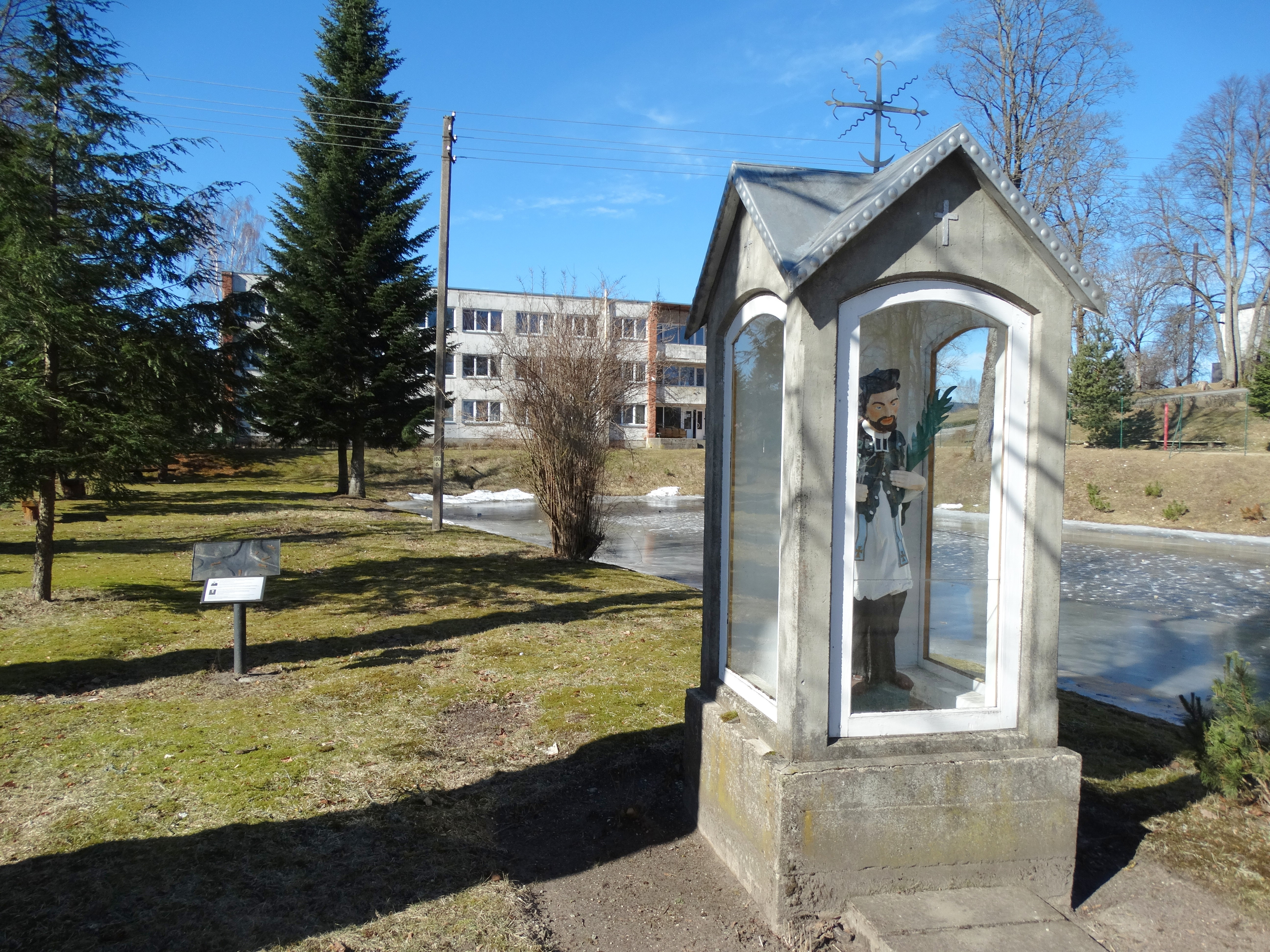 Alsėdžiai, Plungė district, Lithuania